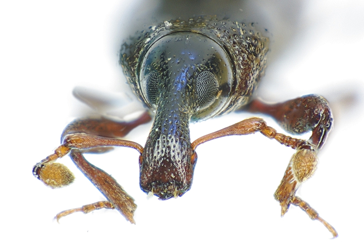 Cossonus linearis from Southern Germany